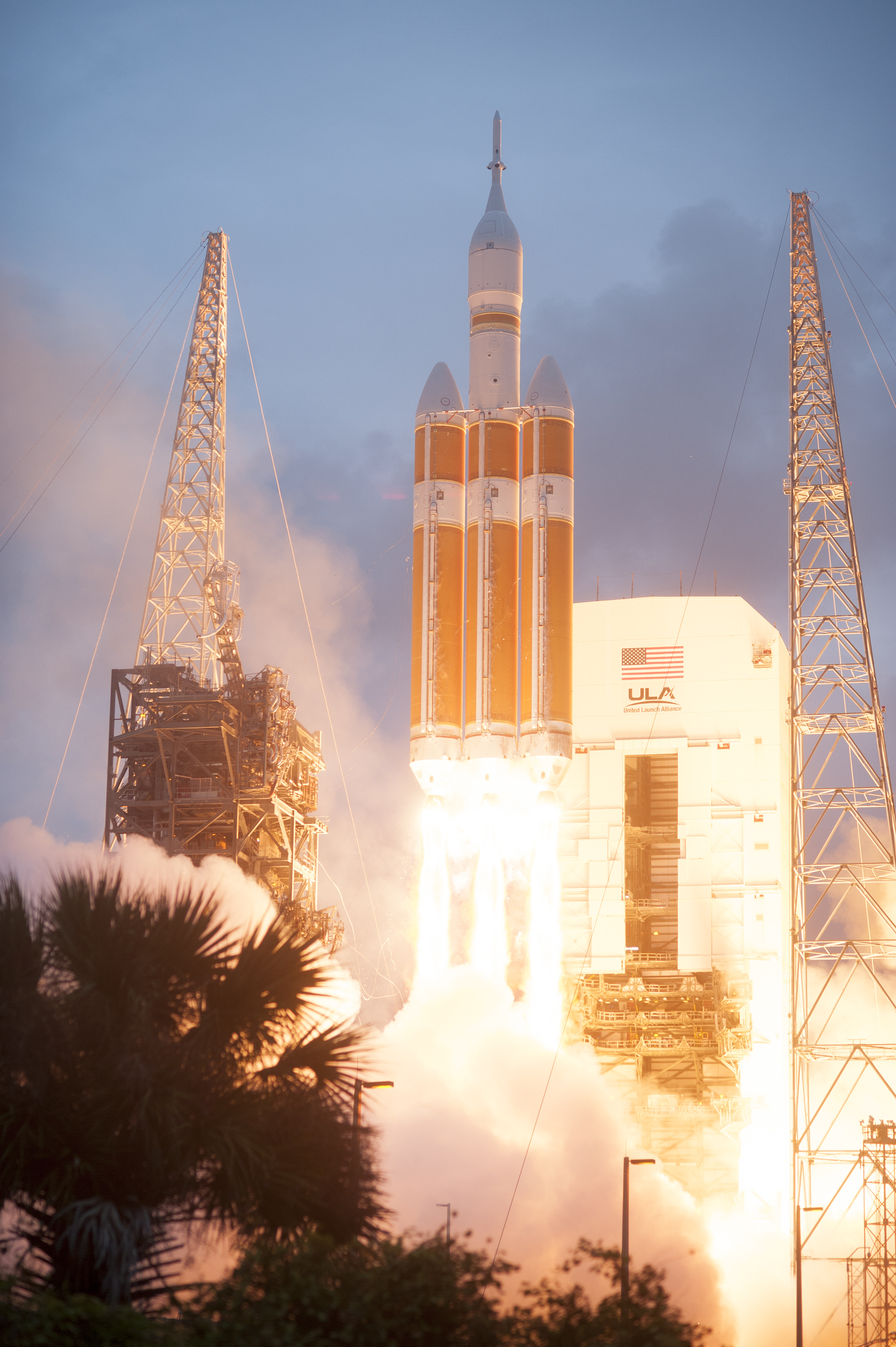 A Delta IV Heavy rocket lifts off from Space Launch Complex 37 at Cape Canaveral Air Force Station in Florida carrying NASA's Orion spacecraft on an unpiloted flight test to Earth orbit. Liftoff was at 7:05 a.m. EST. During the two-orbit, four-and-a-half hour mission, engineers will evaluate the systems critical to crew safety, the launch abort system, the heat shield and the parachute system.